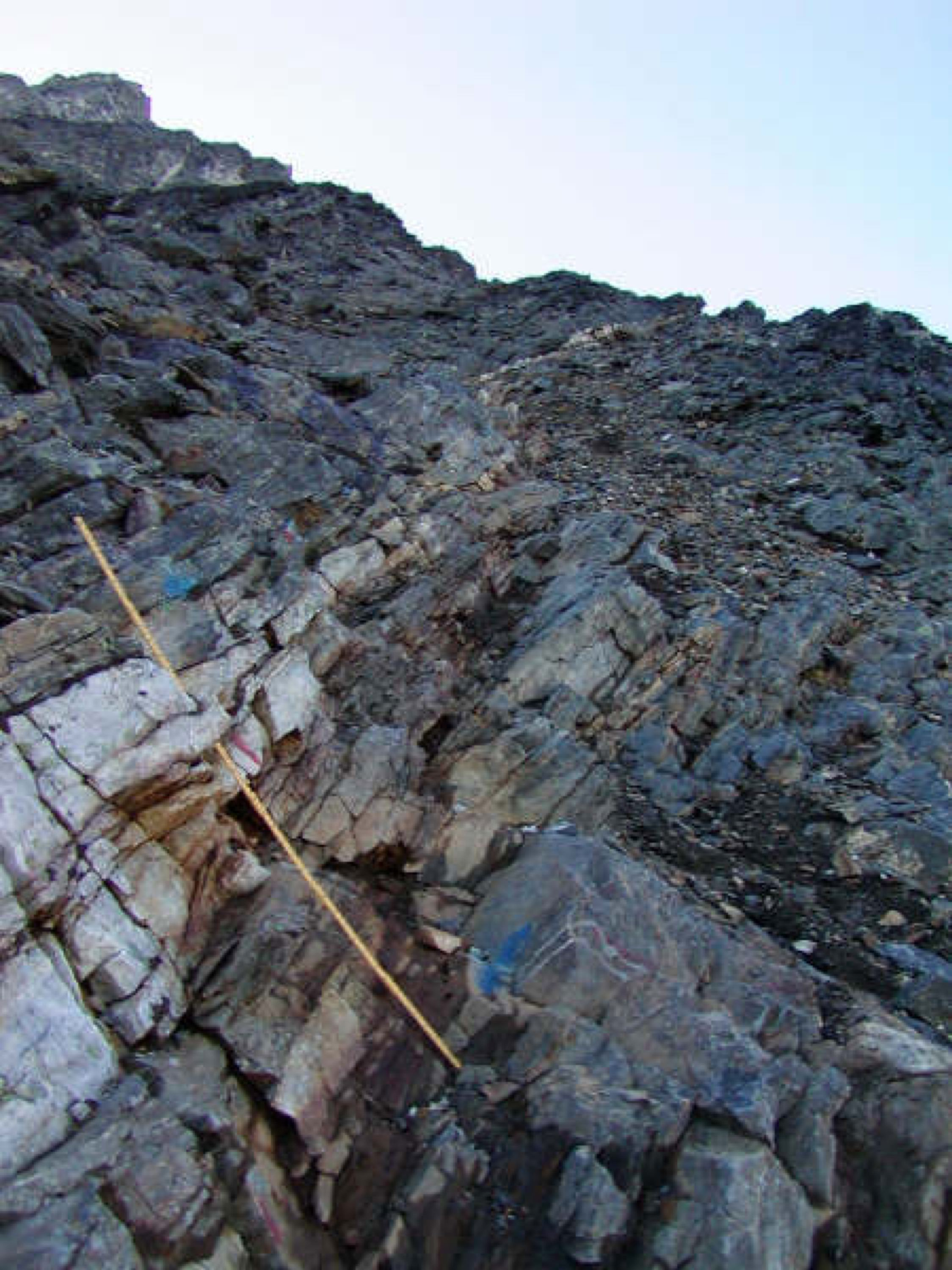 “Main Vein” - outcrop photo of quartz-gold vein (whitish) at Nalunaq Gold Mine, southern Greenland (photo generously provided by Nalunaq Gold Mine). The Nalunaq Gold Mine is Greenland’s first gold mine. It's located 33 km northeast of Nanortalik, in the Ketilidian Orogenic Belt of southern Greenland (60º 21’ 29” N, 44º 50’ 11” W). The deposit was discovered in 1992 and mining commenced in 2004. Mining targets the “Main Vein”, a quartz-gold hydrothermal vein emplaced in a 1 to 2 meter wide shear zone (a regional thrust fault). Shear zone hydrothermal quartz-gold occurrences are frequently referred to as “Mother Lode-type gold deposits”, in reference to the Mother Lode of California. Hanging wall rocks at the Nalunaq Mine are Paleoproterozoic amphibolite-facies metadolerites and metavolcanics. Footwall rocks are volcanogenic massive sulfides. Quartz-gold mineralization here has been dated to 1.77 to 1.80 billion years ago (late Paleoproterozoic), during the Ketilidian Orogeny.